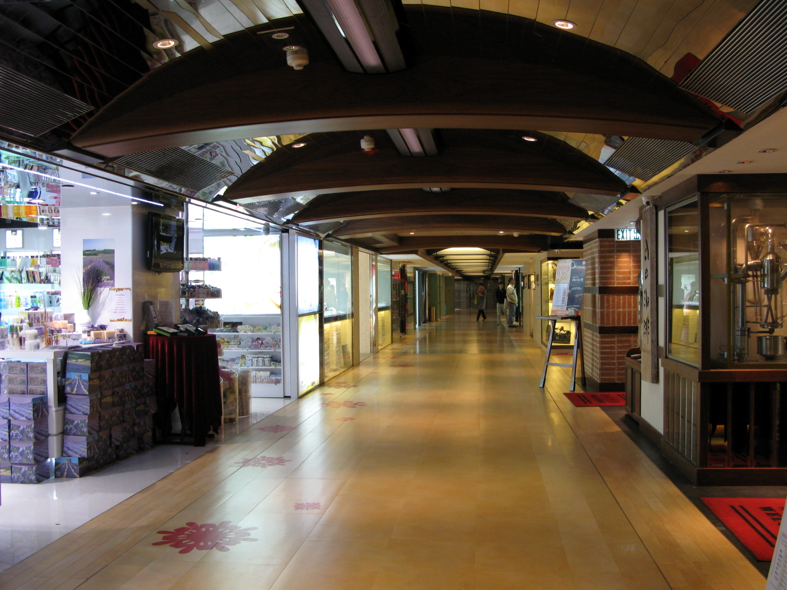 Woodhouse in Chungking Mansions 活方商場